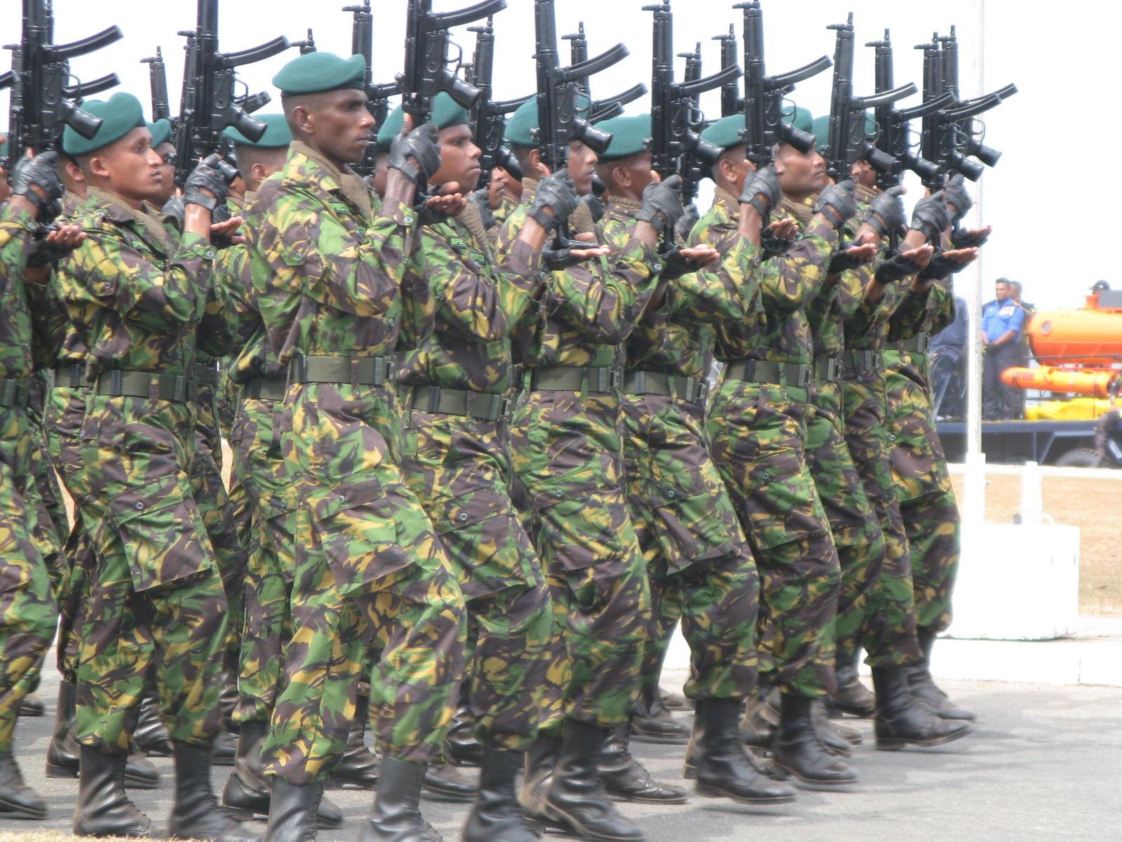 Special Task Force (with MP5 sub machine guns) - Sri Lanka Army